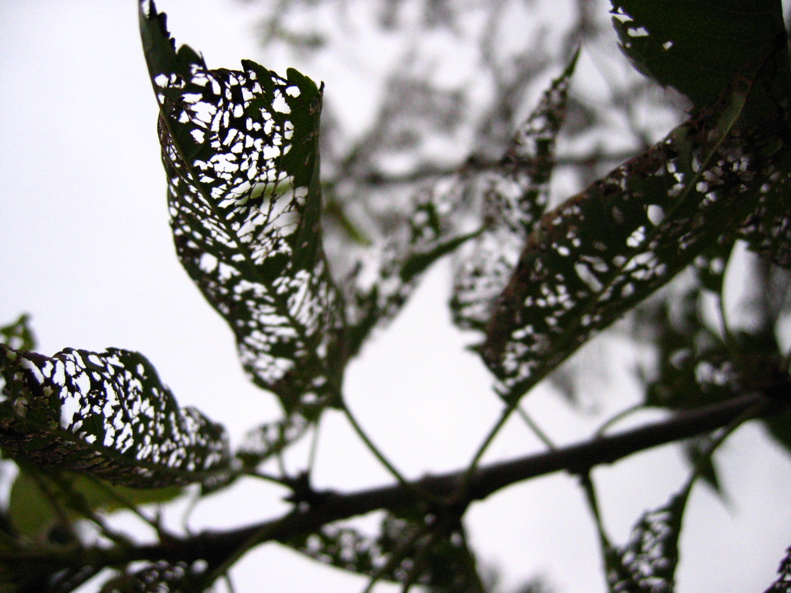 Leaves of an apple tree show extensive insect damage.